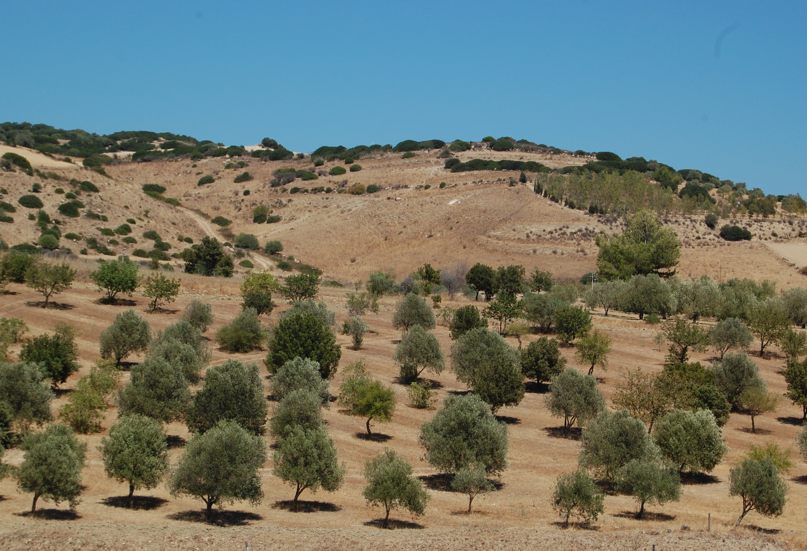 Landscape around su Nuraxi in Sardinia - Italy